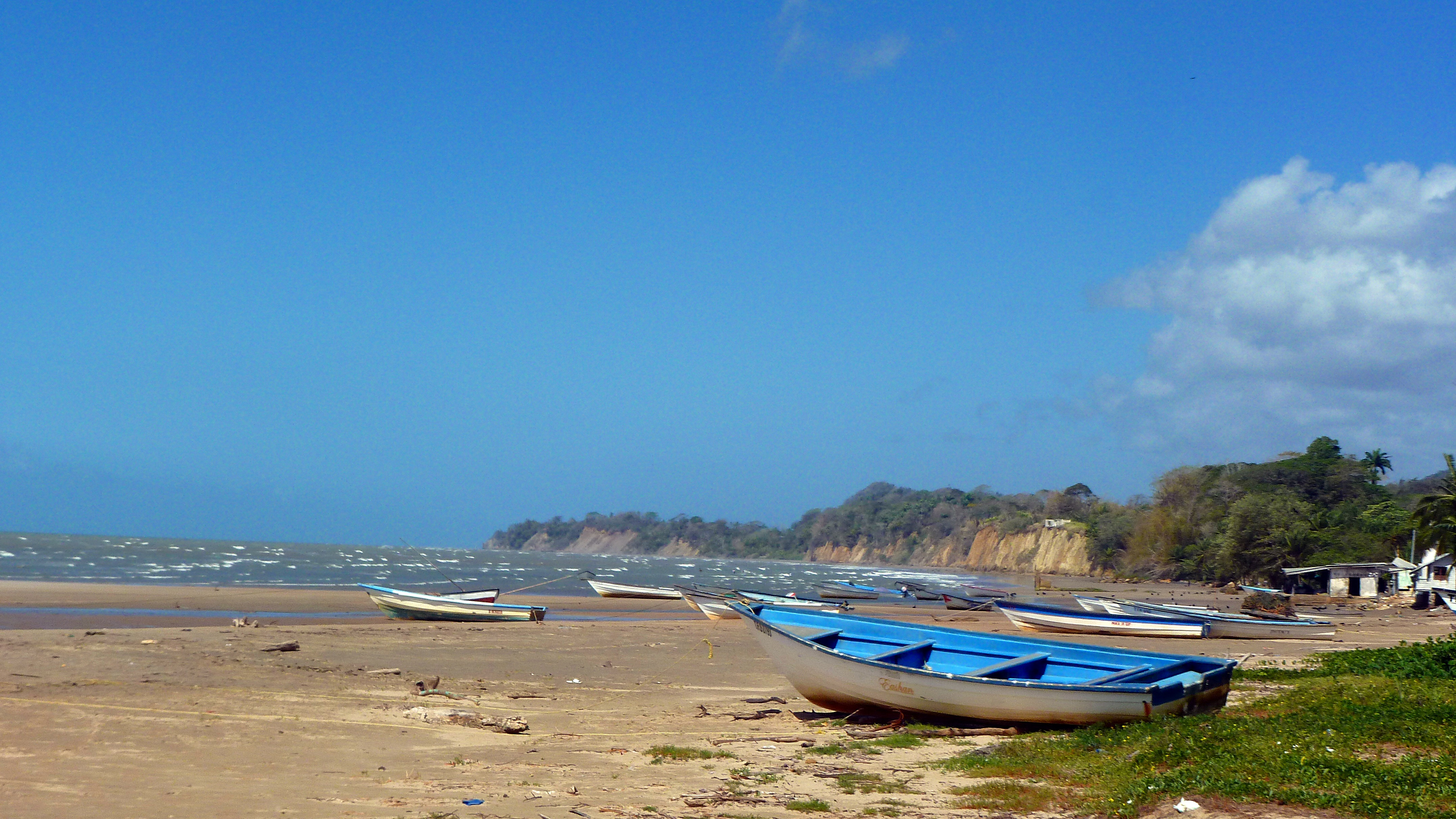 Moruga coastline - Columbus Channel. Christopher Columbus is said to have landed here on his third voyage to the New World in 1498. The sea in the background is named after Columbus. It separates the island of Trinidad from the South American mainland. It is at the mouth of the Orinoco River just a few kilometers from the delta.